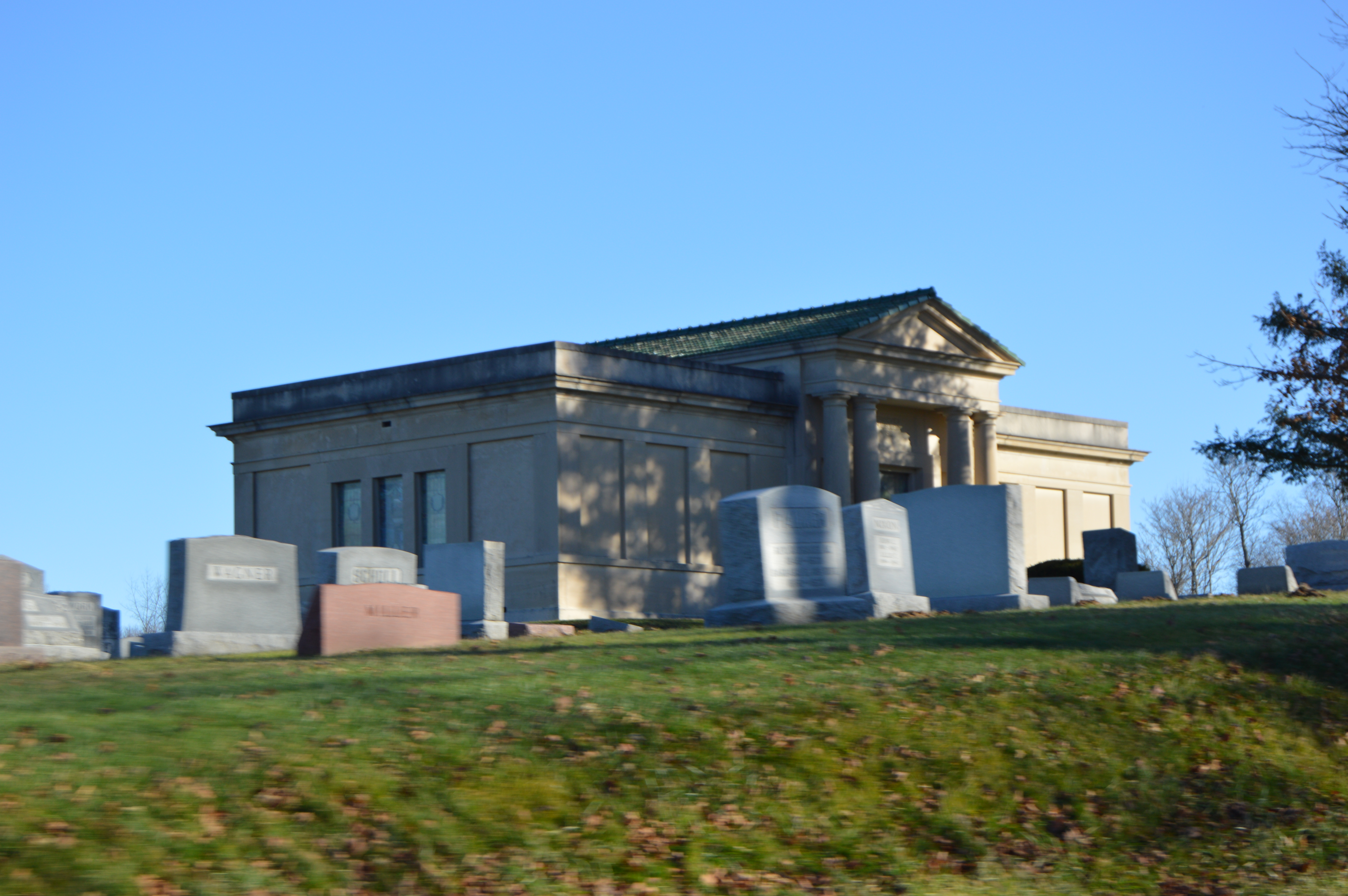 Front and western end of the mausoleum at the Bremen community cemetery, located on State Route 37 northeast of Bremen in Rush Creek Township, Fairfield County, Ohio, United States.